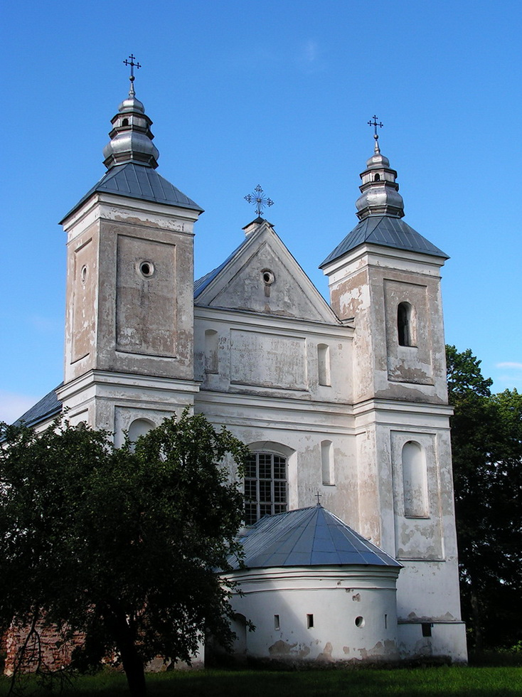 Catholic church of the Holy Trinity (Zasvir, Belarus).